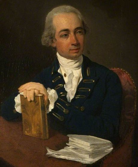 Lord Cuthbert Collingwood (1748–1810), 1st Baron Collingwood